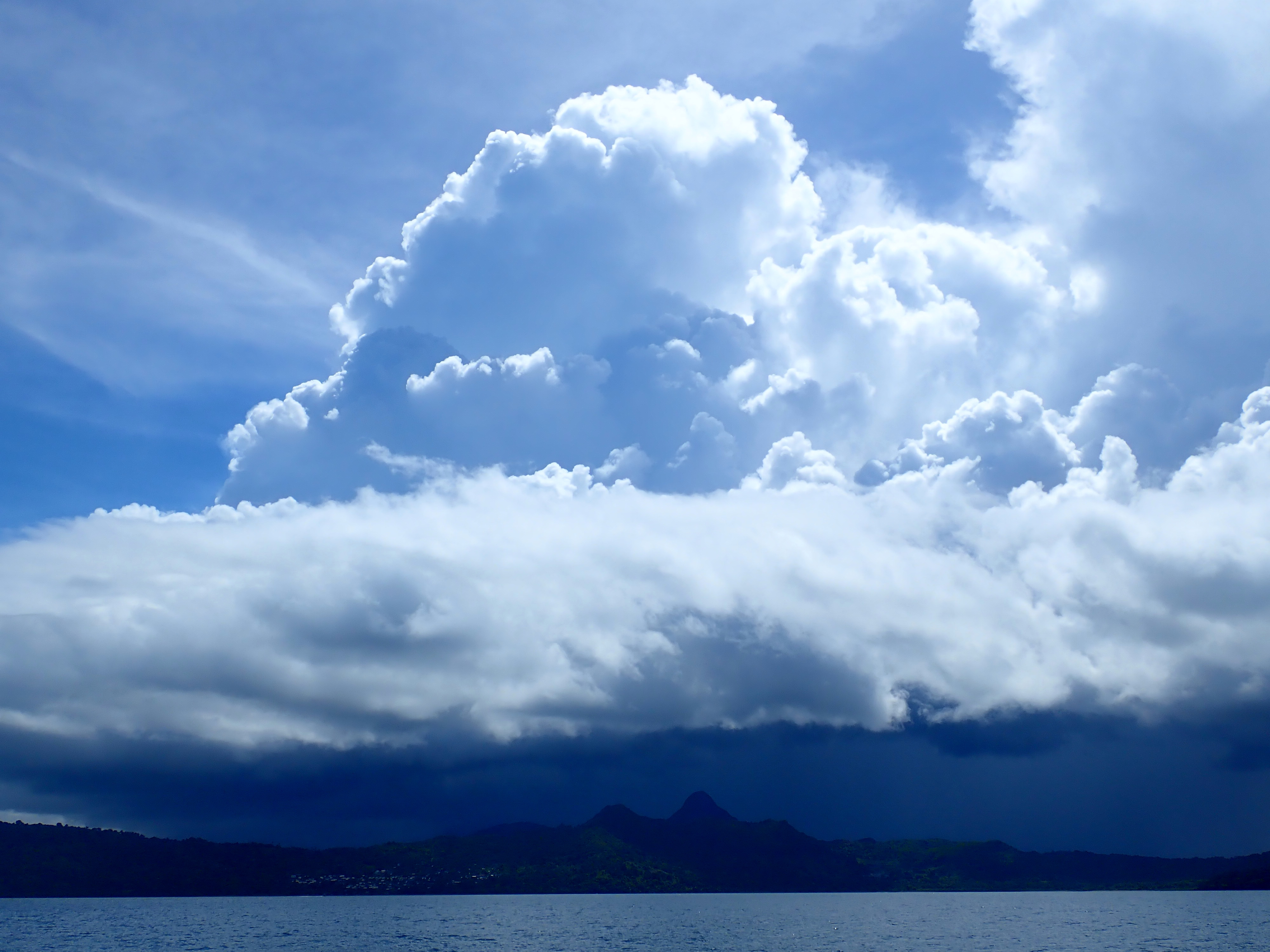 Rainy season in Mayotte (Feb. 2018). From bottom to top : Arcus, cumulonimbus calvus, cirrus.